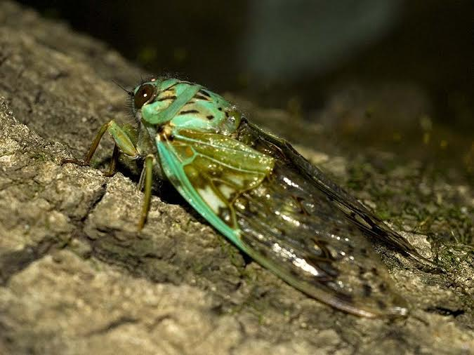 Pycna semiclara in KwaZulu-Natal, South Africa